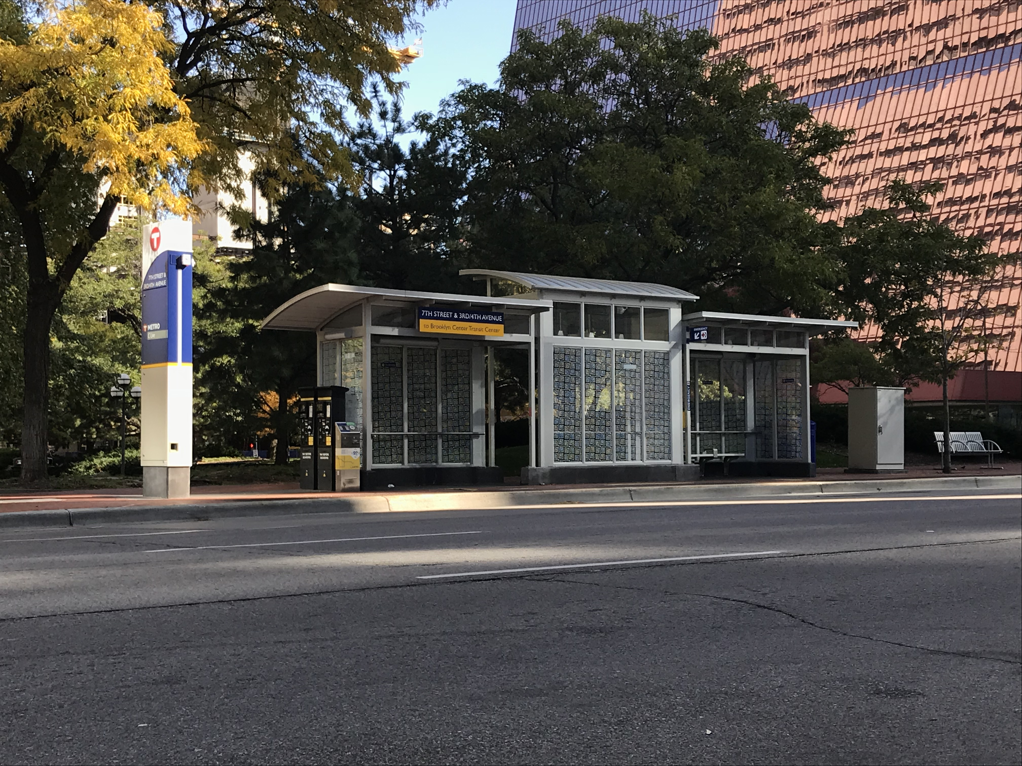 The northbound 7th St & 3rd/4th Ave C Line station in downtown Minneapolis.